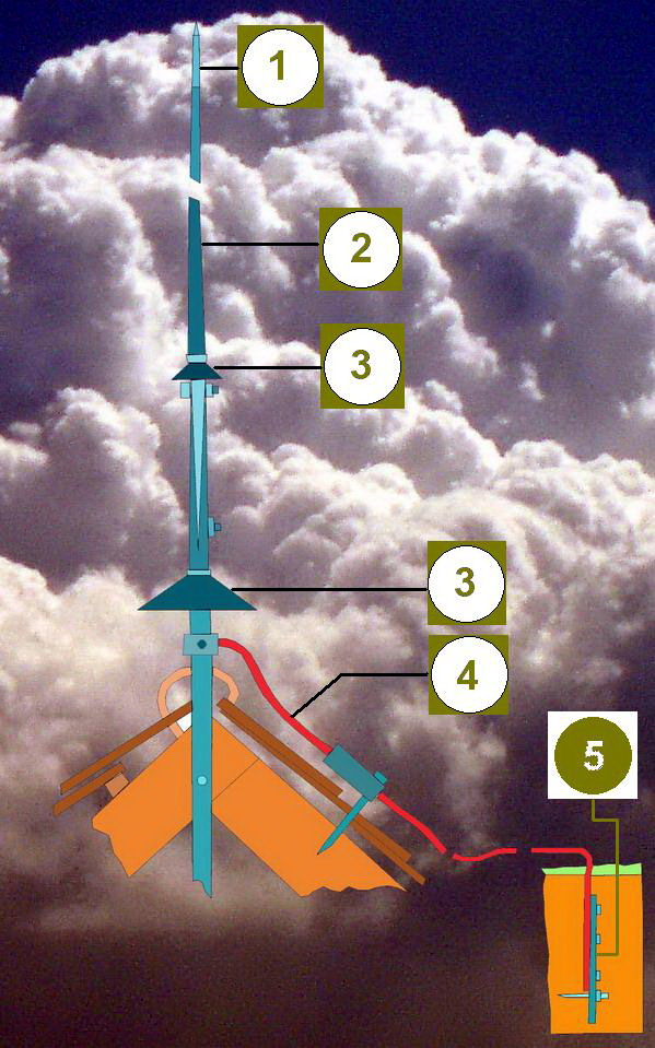 Lightning rod